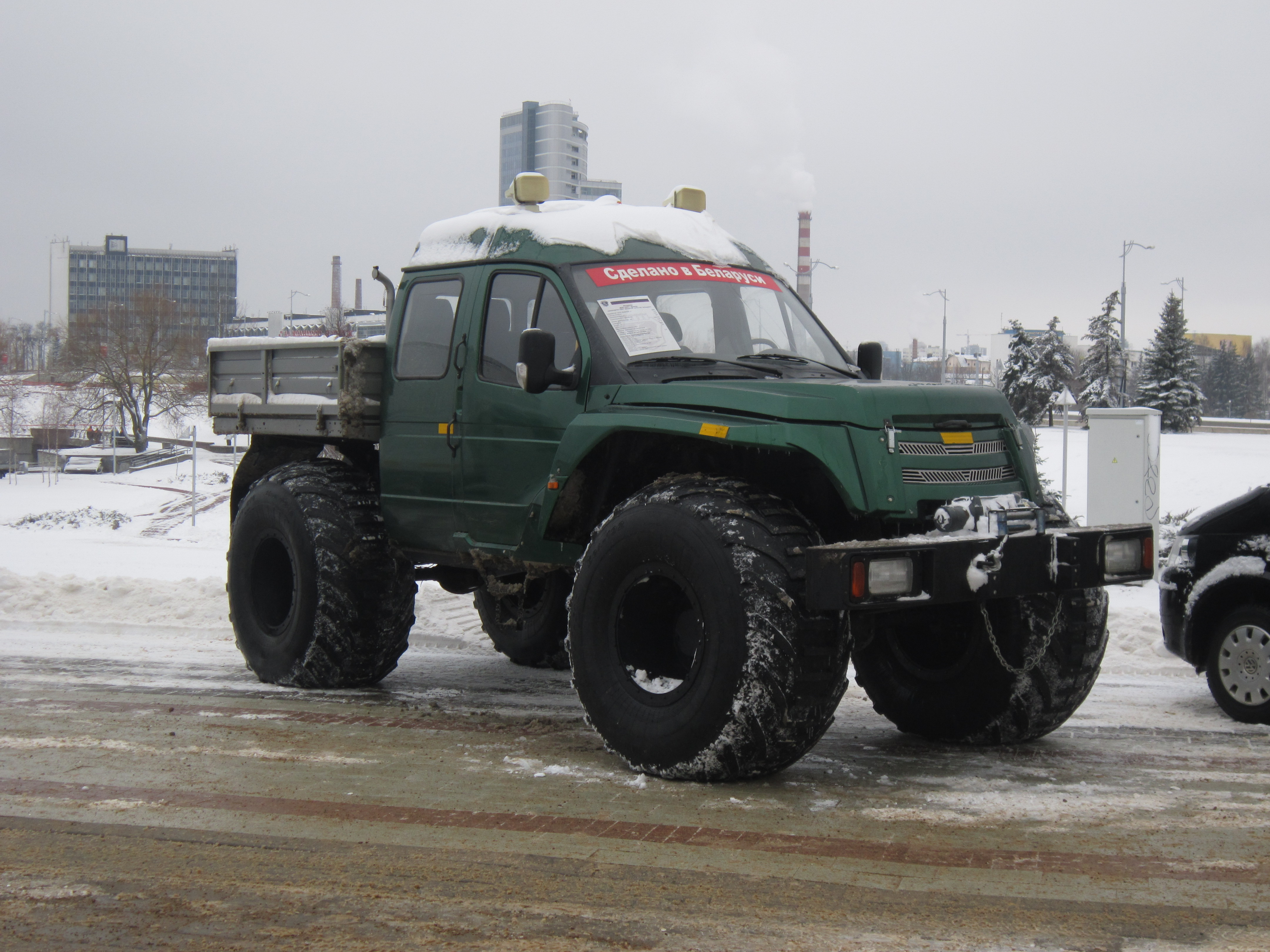 Belarusian all-terrain vehicle MAS-4421 "Dnieper" (МАС-4421 «Днепр») in Minsk, Belarus